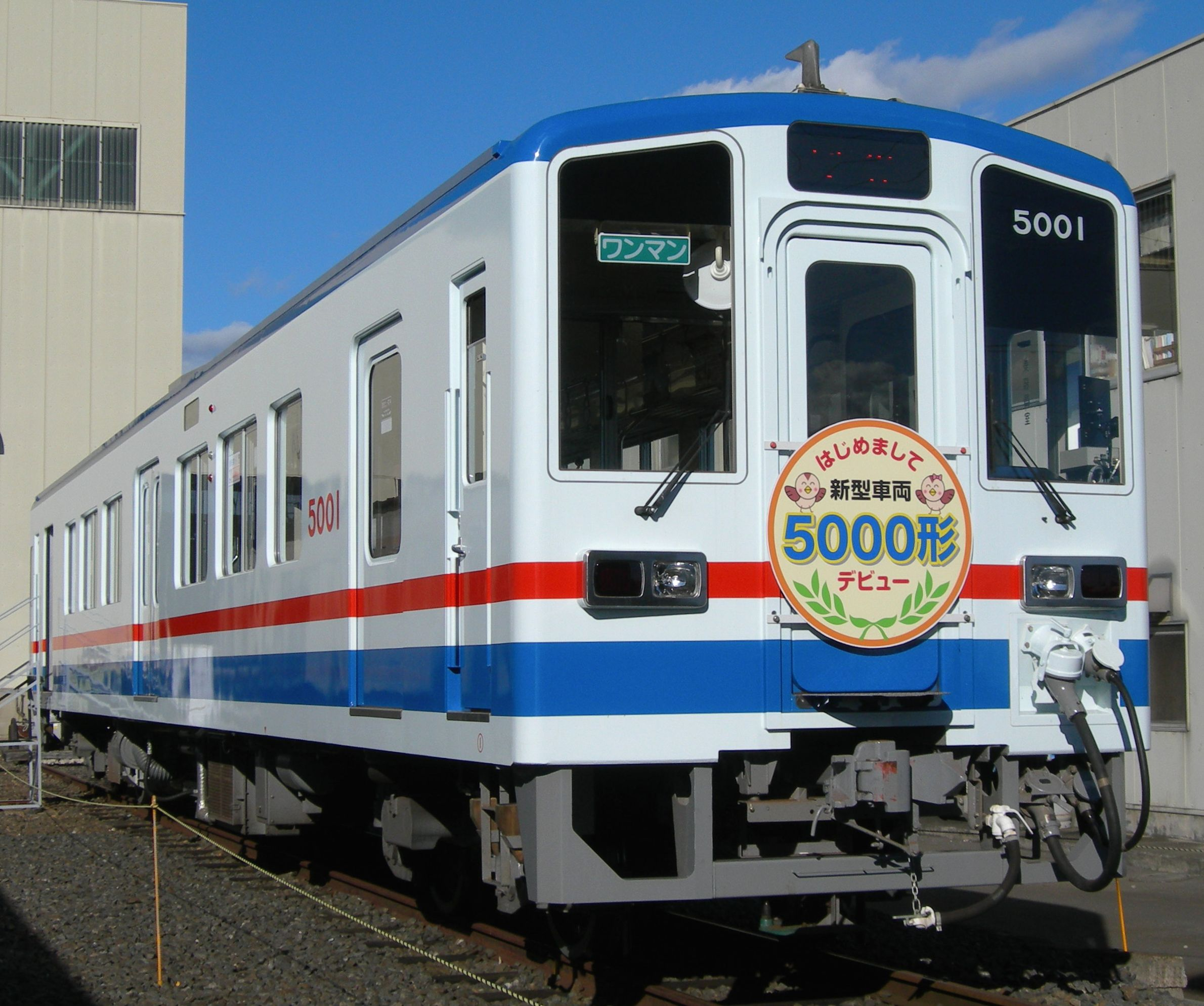 Kanto Railway Series"DC5000"